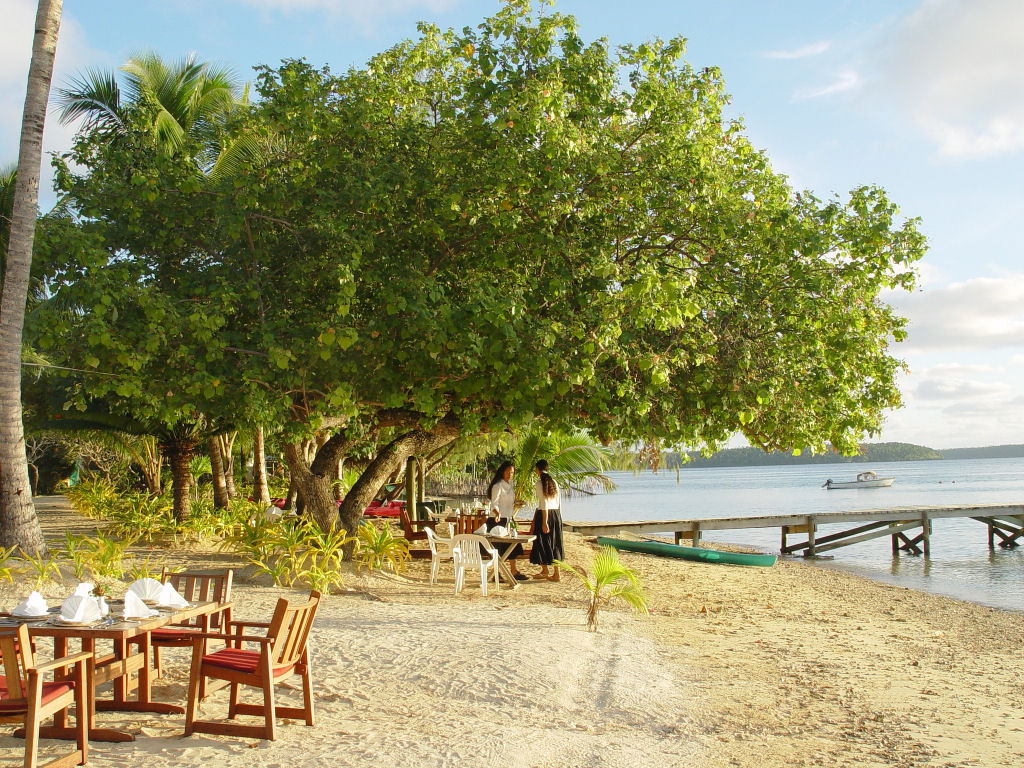 Beach on Vava'u, Tonga